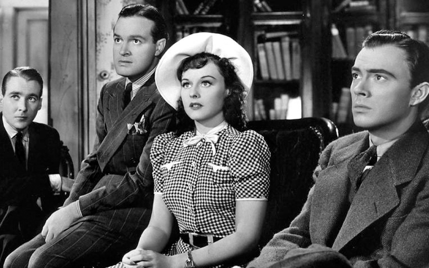 Promotional still for the 1939 film The Cat and the Canary Left to right: Douglass Montgomery, Bob Hope, Paulette Goddard, John Beal